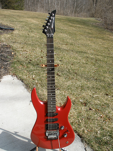 Yamaha guitar RGX211 series